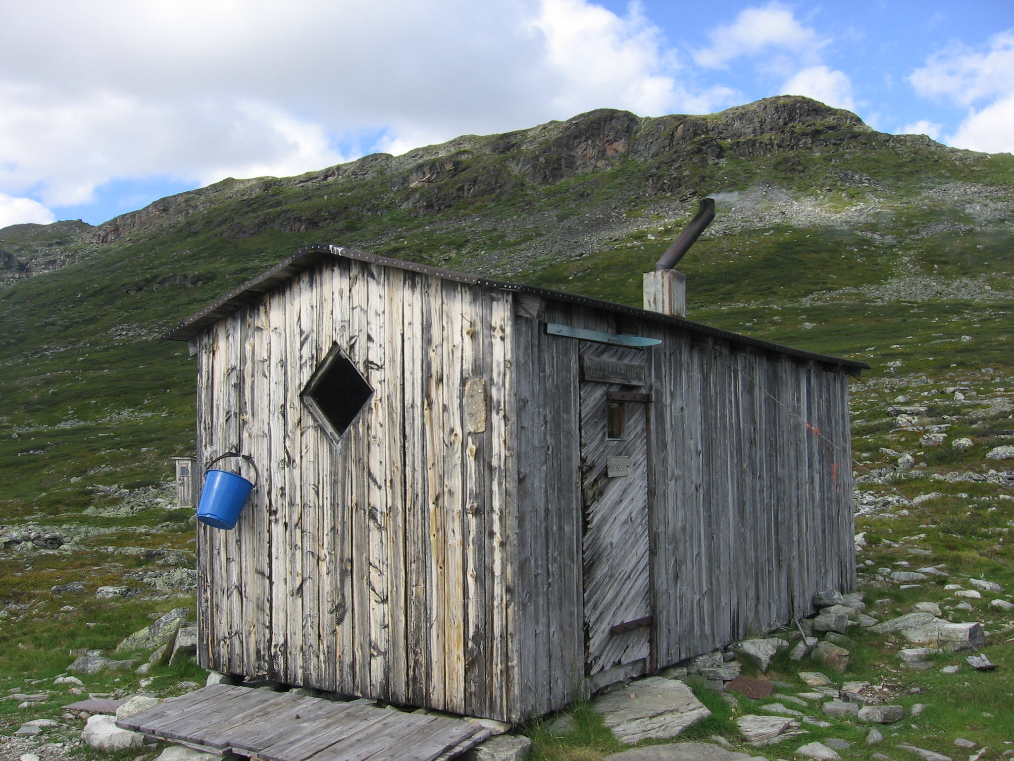 Lake Riimmajärvi wilderness hut located in Käsivarsi Wilderness Area, Finnish Lapland. This wilderness hut is humorously called "Urtashotelli" after a nearby fell.